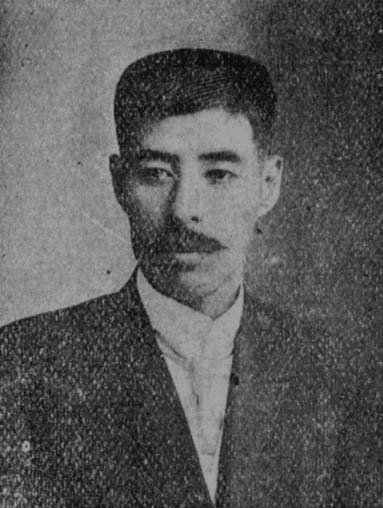 Mr. Kenzō Sakurai, director of the Yamaguchi Prefectural Murozumi Normal School.